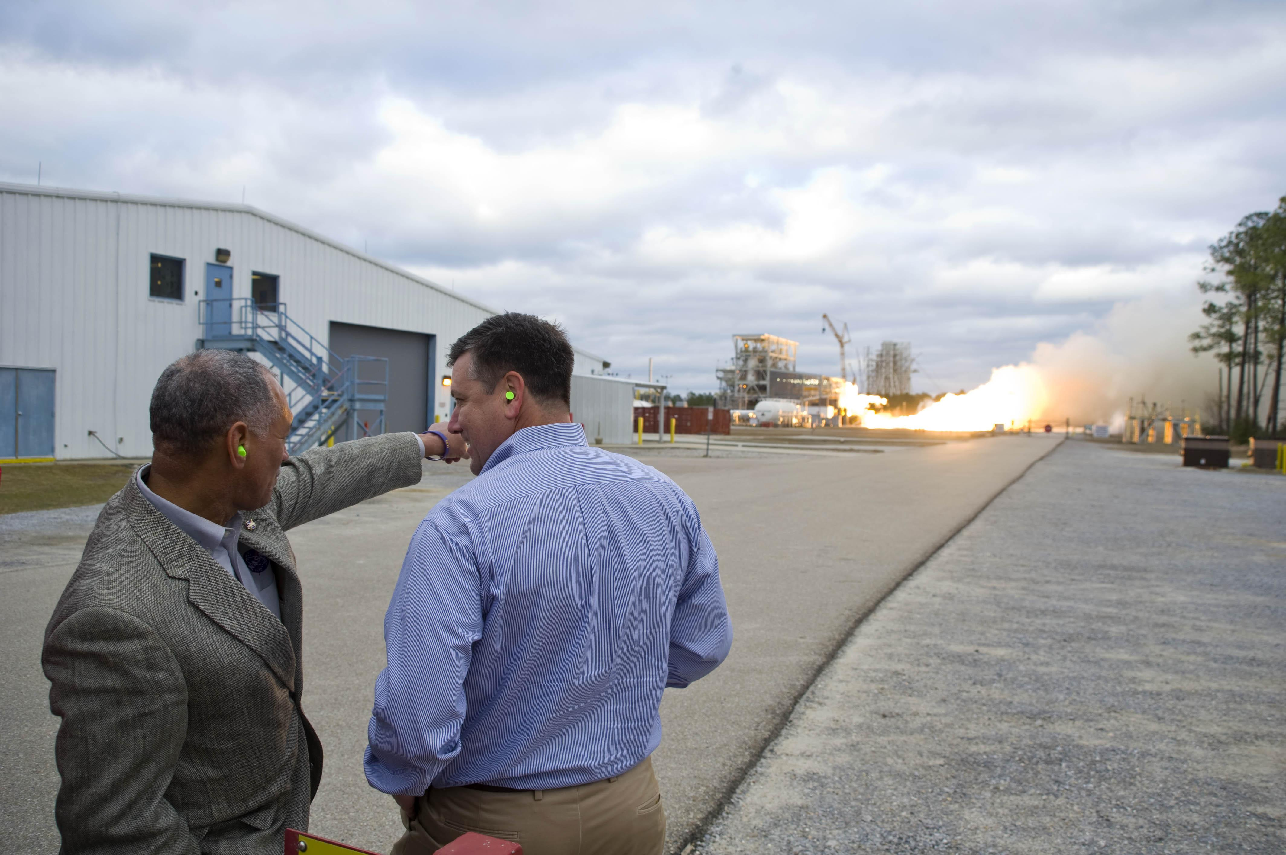 NASA Administrator Charlie Bolden (left) and Stennis Space Center Director Patrick Scheuermann view a test firing of the first Aerojet AJ26 flight engine. Once flight acceptance is achieved, the engine will power the first stage of Orbital's Taurus II space launch vehicle on commercial cargo missions to the International Space Station. NASA has partnered with Orbital to provide eight cargo missions to the space station, with the first scheduled for early 2012.